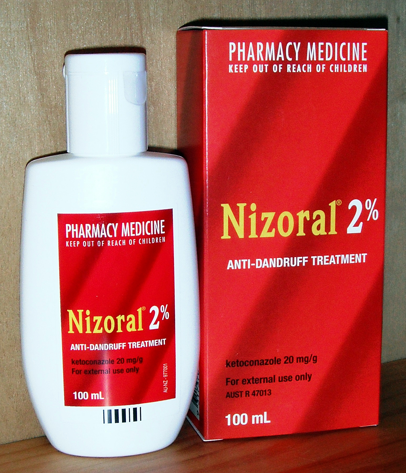 Nizoral